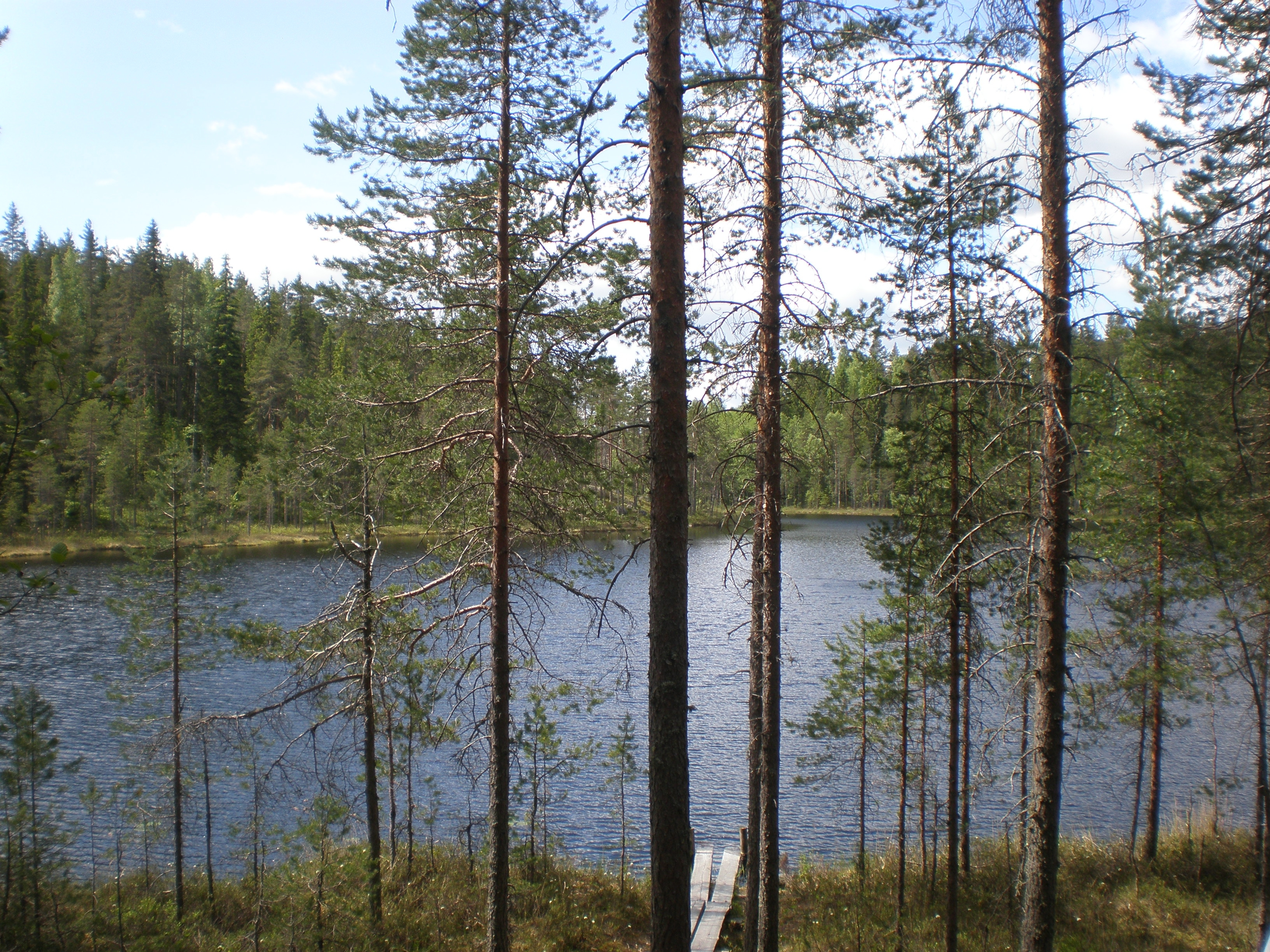 Soimalampi Pond at Leivonmäki Nationalpark